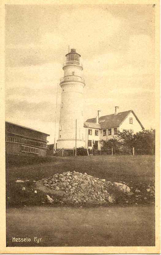 Lighthouse on the island Hesselø, Kattegat, Danmark